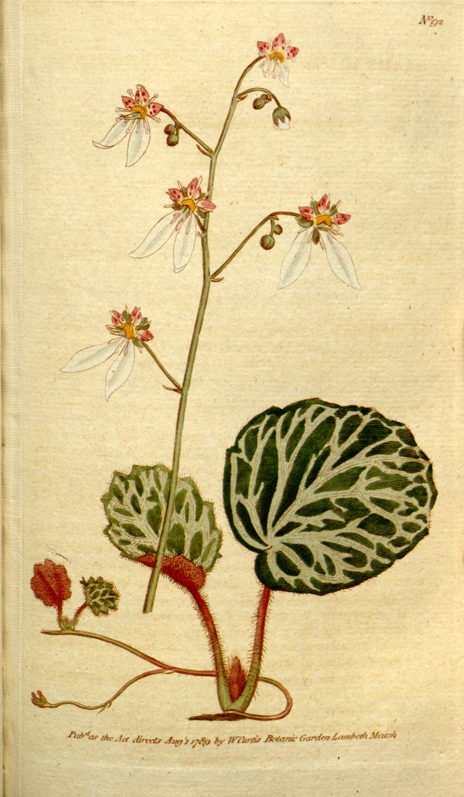 This is a plate from The Botanical Magazine, Volume 3.